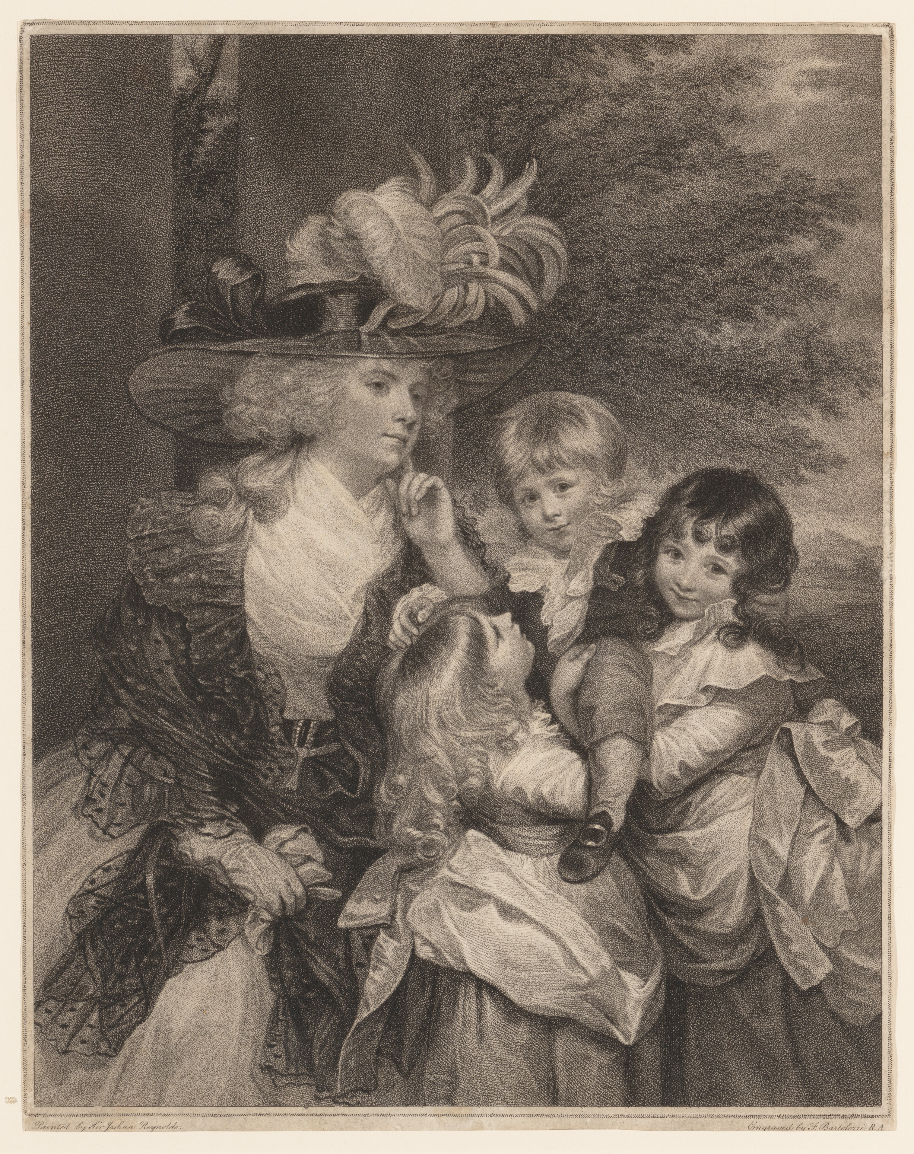 Print; Prints